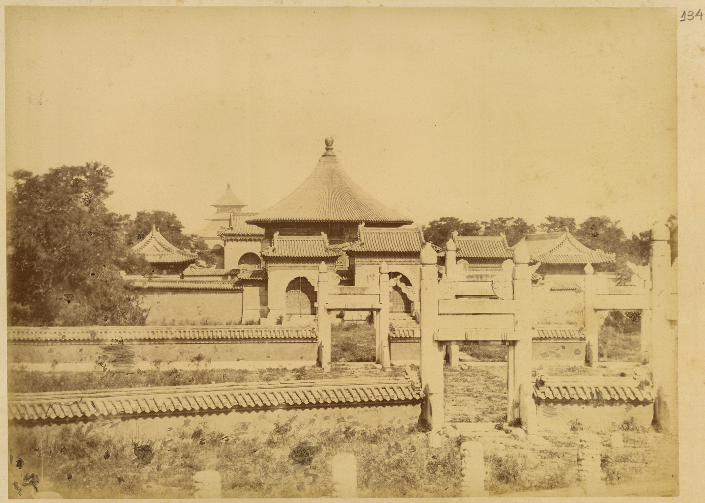 In 1874-75, the Russian government sent a research and trading mission to China to seek out new overland routes to the Chinese market, report on prospects for increased commerce and locations for consulates and factories, and gather information about the Dungan Revolt then raging in parts of western China. Led by Lieutenant Colonel Iulian A. Sosnovskii of the army General Staff, the nine-man mission included a topographer, Captain Matusovskii; a scientific officer, Dr. Pavel Iakovlevich Piasetskii; Chinese and Russian interpreters; three non-commissioned Cossack soldiers; and the mission photographer, Adolf Erazmovich Boiarskii. The mission proceeded from Saint Petersburg to Shanghai via Ulan Bator (Mongolia), Beijing, and Tianjin, and then followed a route along the Yangtze River, along the Great Silk Road through the Hami oasis, to Lake Zaysan, back to Russia. Boiarskii took some 200 photographs, which constitute a unique resource for the study of China in this period. Most of the photographs are included in this album, which later became part of the Thereza Christina Maria Collection assembled by Emperor Pedro II of Brazil and given by him to the National Library of Brazil. Buddhist temples; Exterior walls; Gates; Memory of the World; Tian Tan